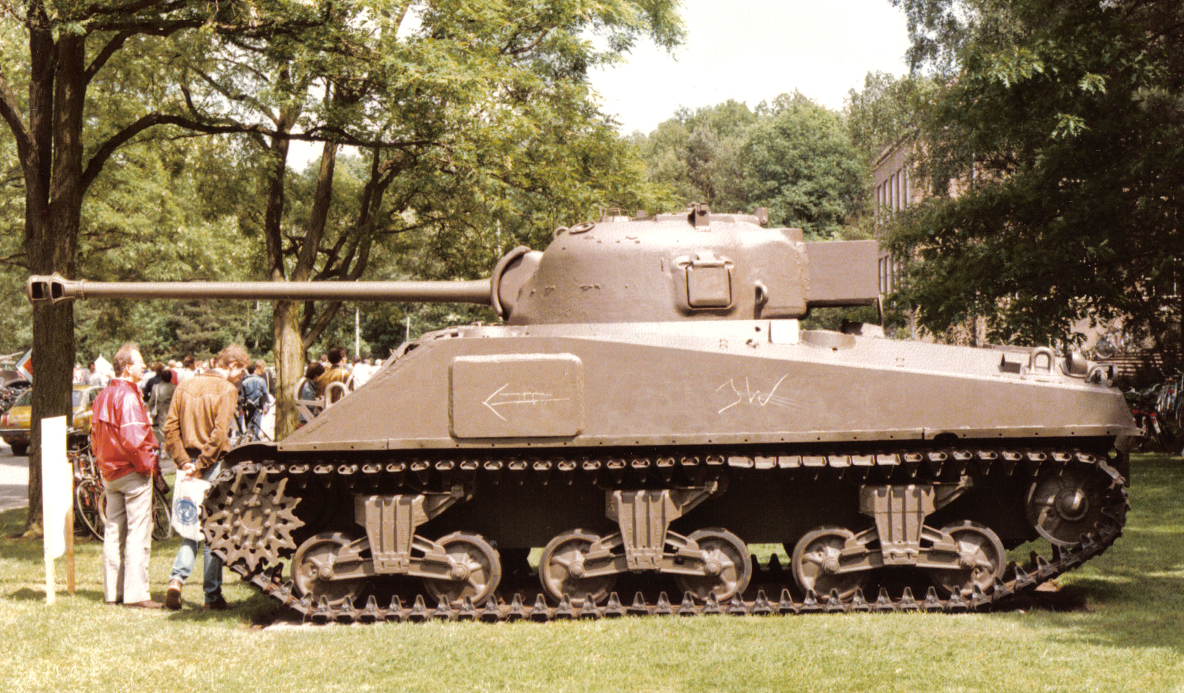 Sherman V Firefly at Amersfoort Cavalry Museum, has German muzzle brake